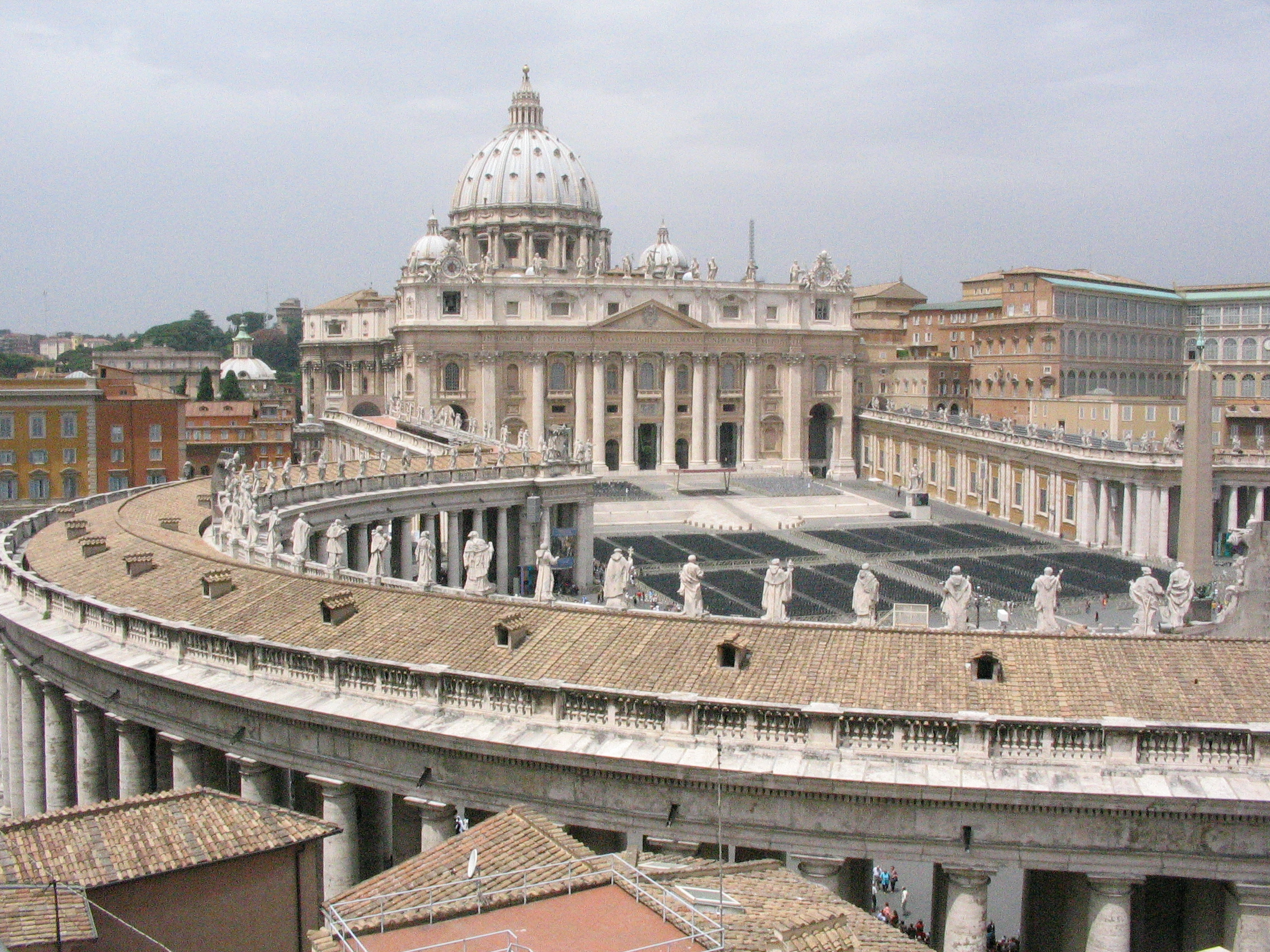 view of the vatican basilica from a roof near saint Peter square.